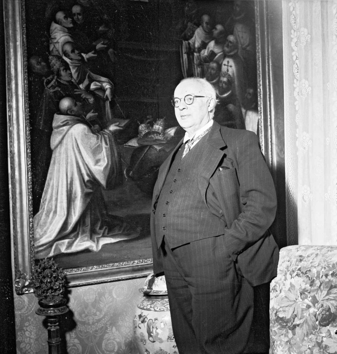 Swedish pharmacologist Eugène Louis Backman (1883-1965)